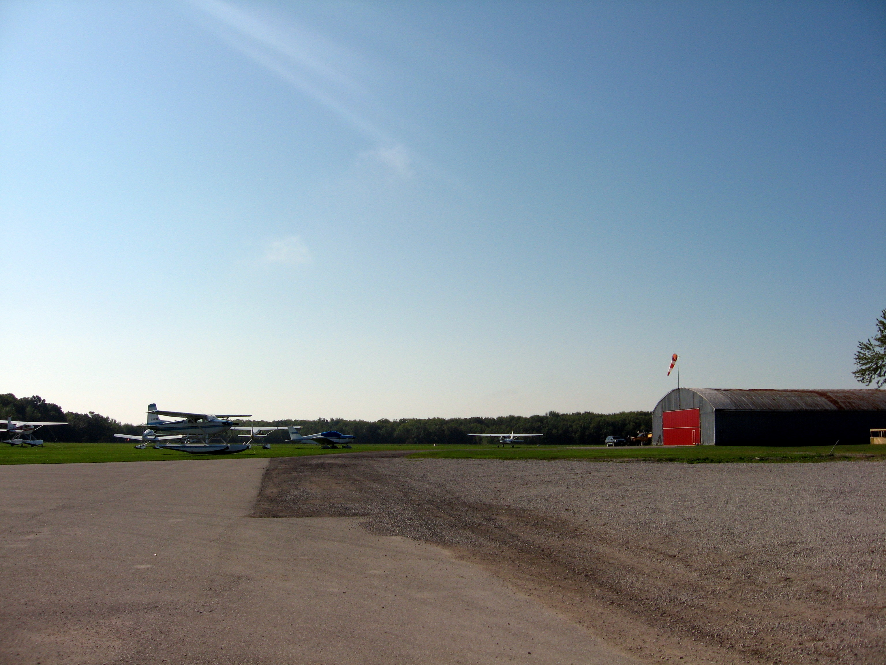 An aerodrome near Orillia, Ontario, Canada